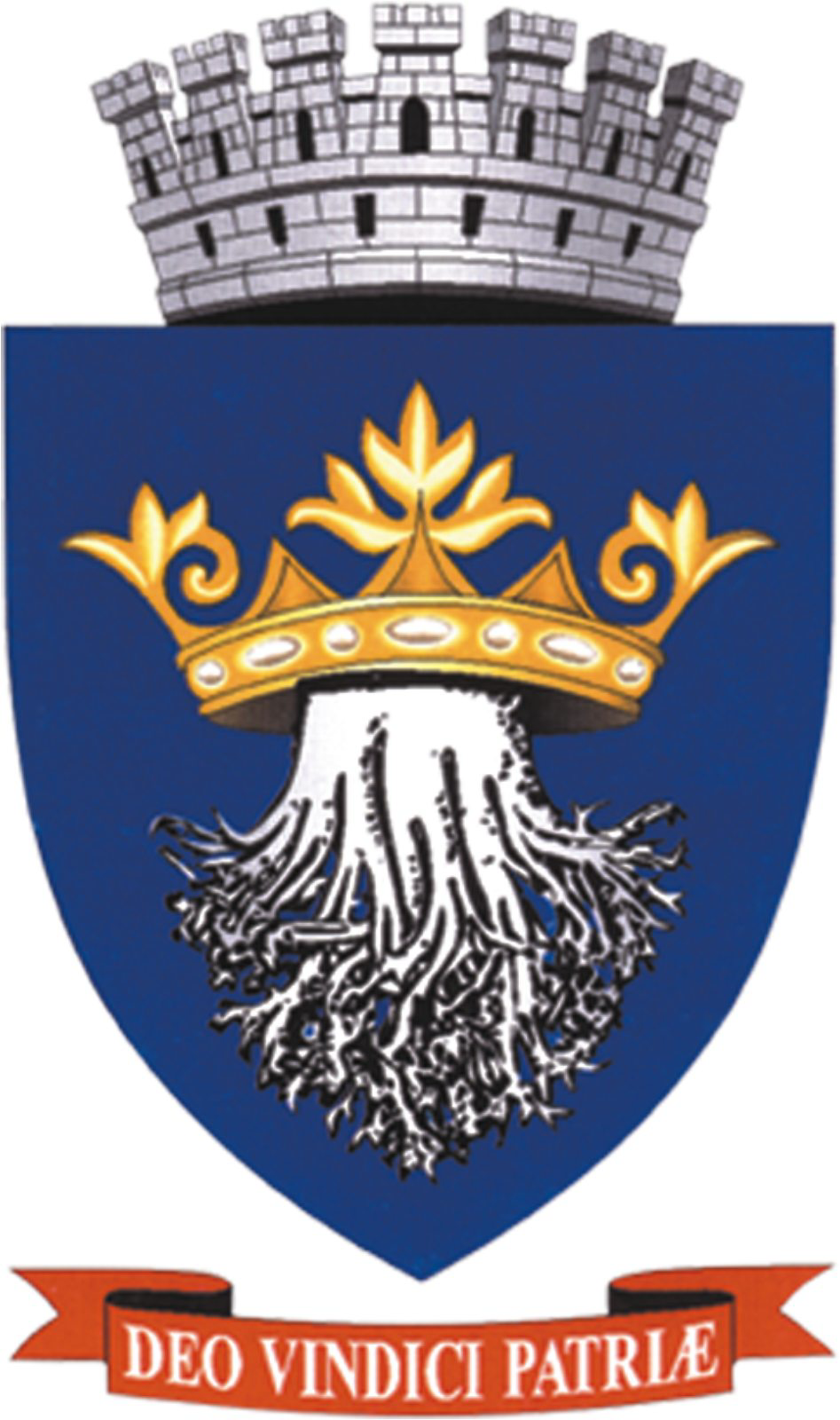 Coat of arms of Braşov, Romania